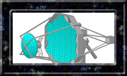 Artistic view of the telescope